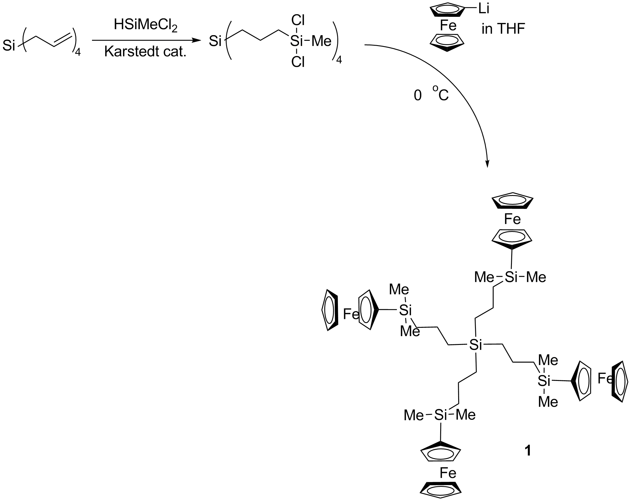 A scheme for the synthesis of a small ferrocene-containing dendrimer